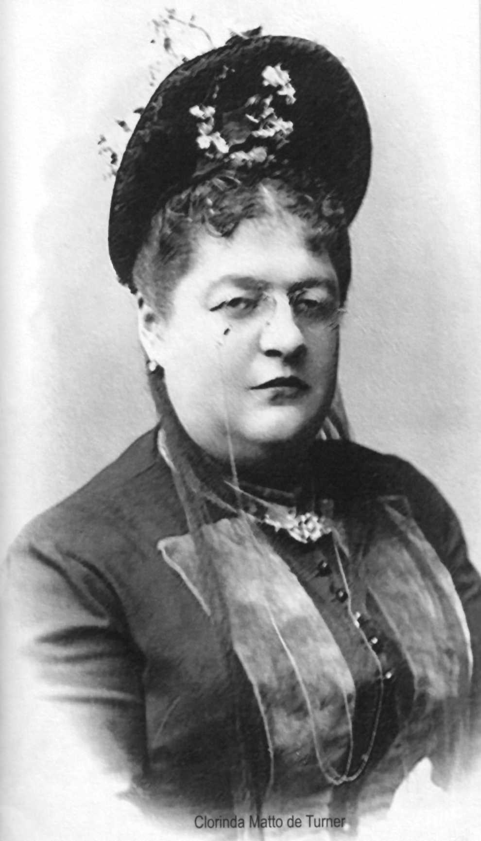 Peruvian writer Clorinda Matto de Turner